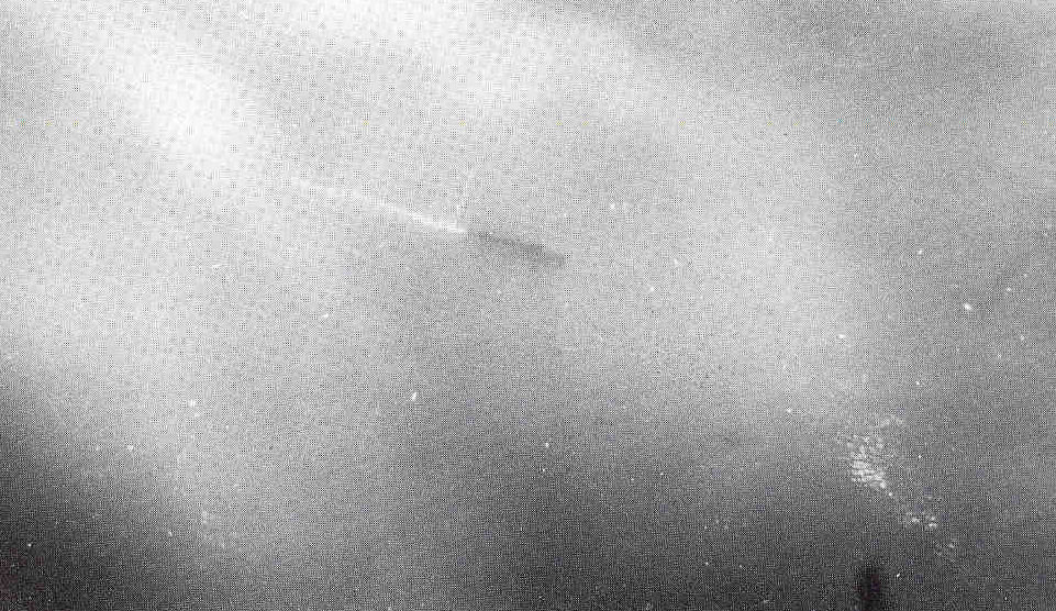 The Imperial Japanese Navy destroyer Yuzuki flees Tulagi harbor on 4 May 1942 in an attempt to evade air attack from U.S. carrier aircraft from the aircraft carrier USS Yorktown (CV-5).